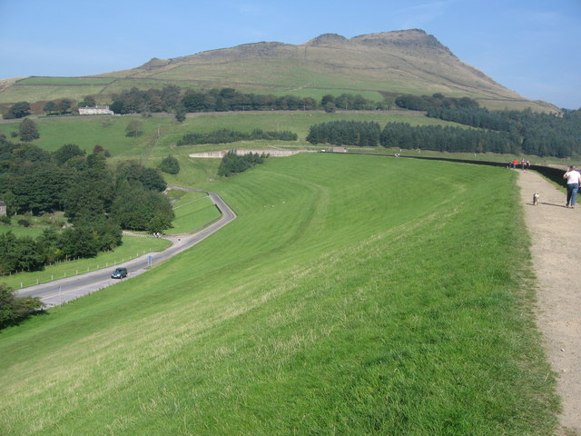 Dovestones Reservoir. Located above the village of Greenfield Dovestones Reservoir was built in 1967 to supply drinking water for the Manchester area. Today the reservoir is quite a tourist attraction offering many walks amongst the picturesque surroundings of the Peak District National Park Should you climb to the peak of the hill in the top right of the picture you would experience 950450 985784 985833